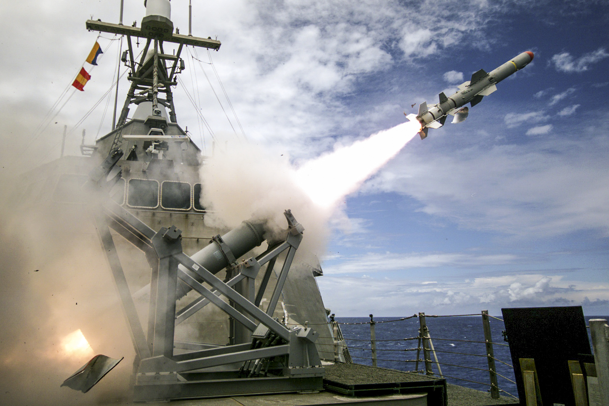 160719-N-ZZ999-112 PACIFIC OCEAN (July 19, 2016) USS Coronado (LCS 4), an Independence-variant littoral combat ship, launches the first over-the-horizon missile engagement using a Harpoon Block 1C missile. Twenty-six nations, 40 ships and submarines, more than 200 aircraft and 25,000 personnel are participating in RIMPAC from June 30 to Aug. 4, in and around the Hawaiian Islands and Southern California. The world's largest international maritime exercise, RIMPAC provides a unique training opportunity that helps participants foster and sustain the cooperative relationships that are critical to ensuring the safety of sea lanes and security on the world's oceans. RIMPAC 2016 is the 25th exercise in the series that began in 1971. (U.S. Navy photo by Lt. Bryce Hadley/Released)